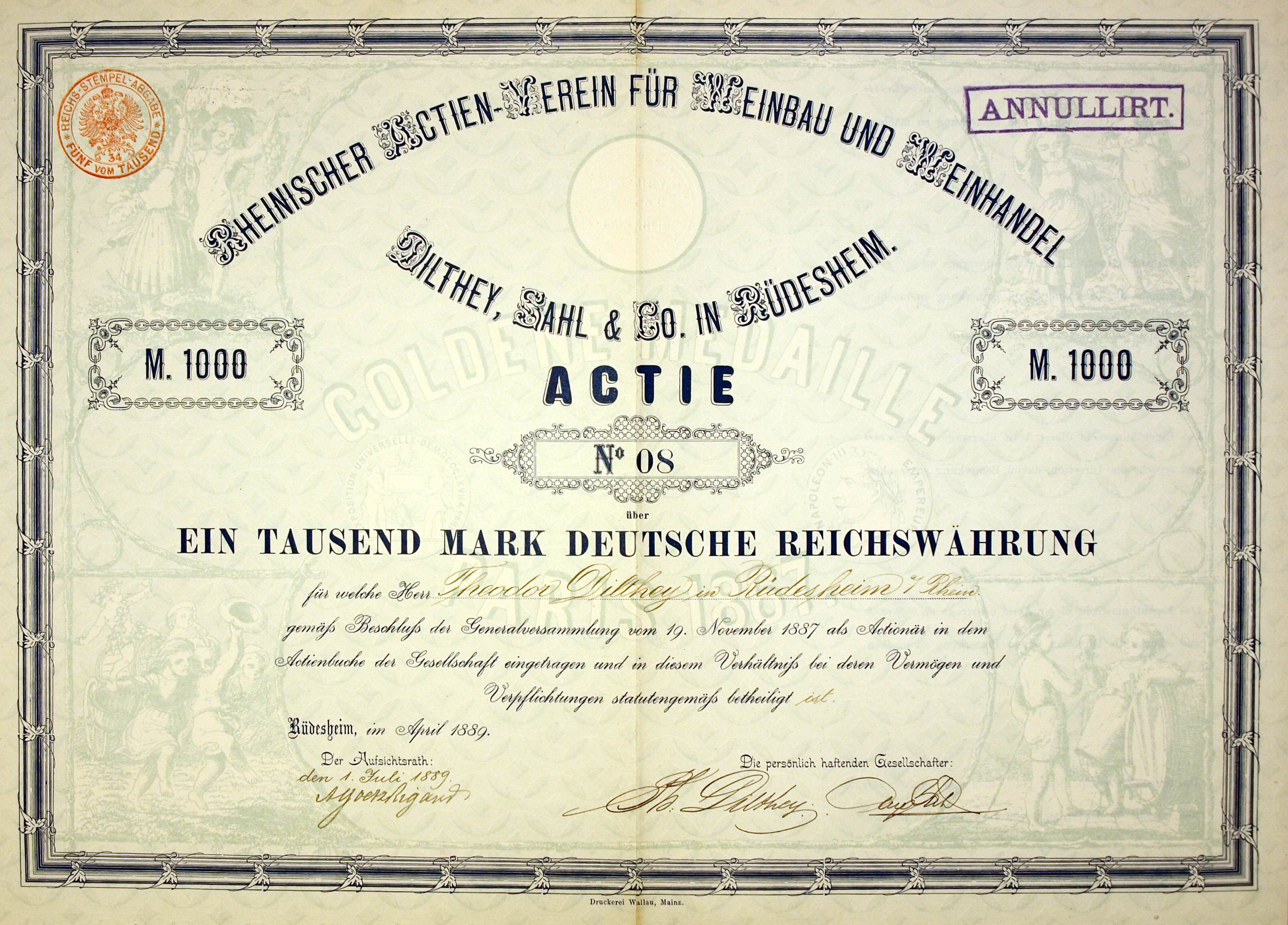 Share of the Rheinische Actien-Verein für Weinbau und Weinhandel Dilthey, Sahl & Co, issued April 1889